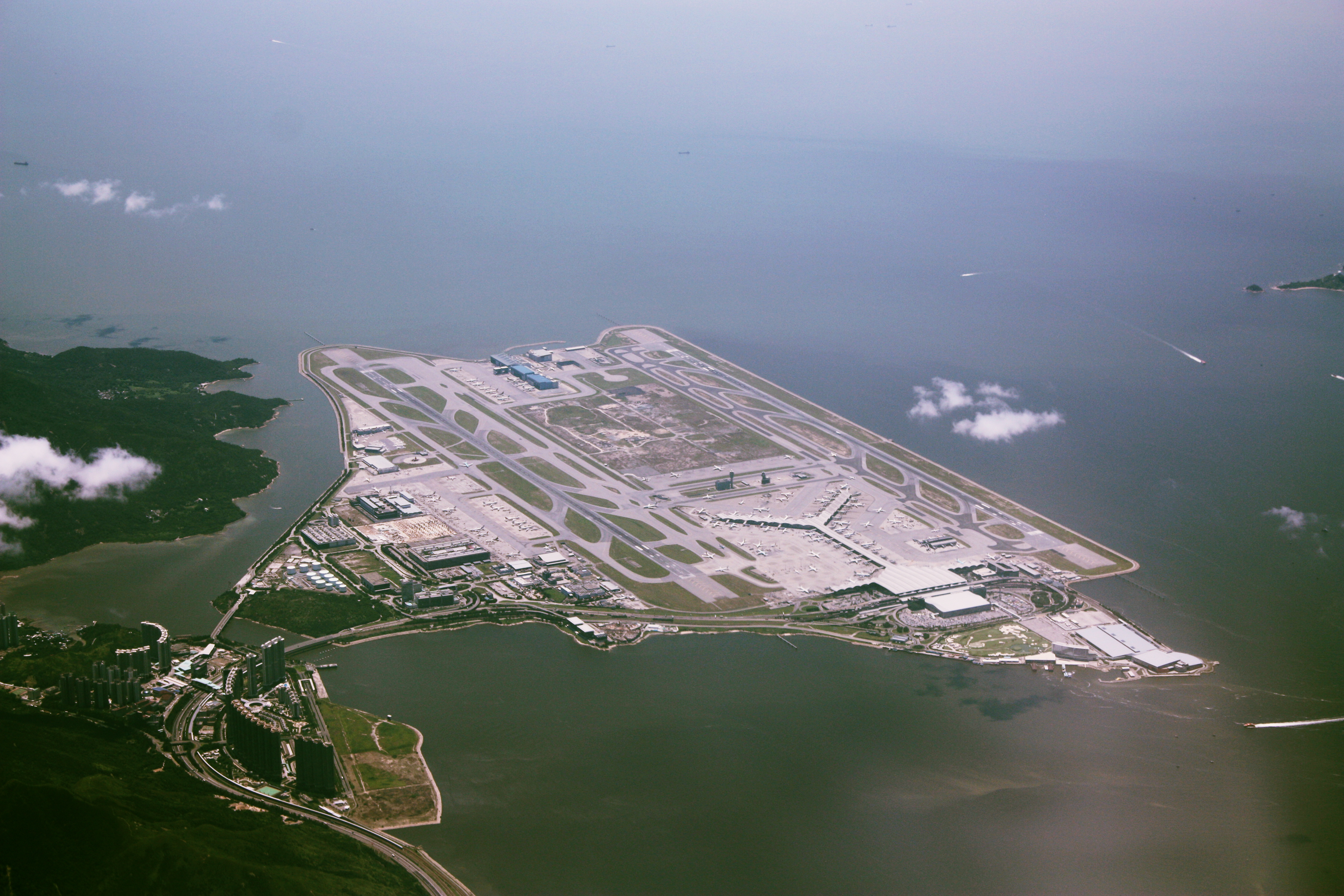 This photo was taken on Flight CA102, an A321-200 of Air China towards Beijing.